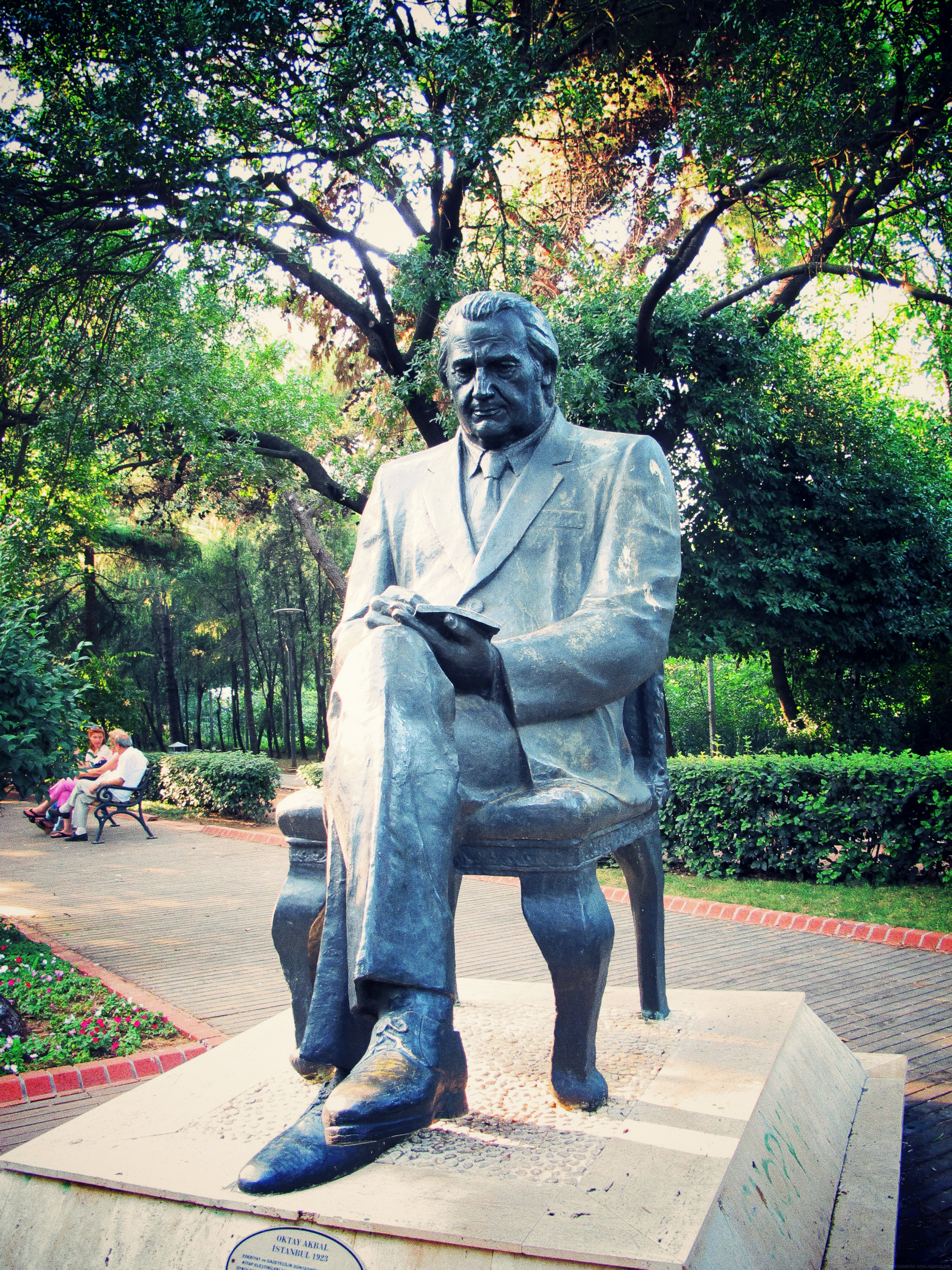 Statue of Oktay Akbal in Özgürlük Parkı, Kadıköy